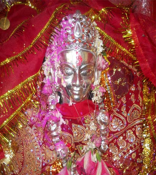 Maa Kudargarhi's Official Photo